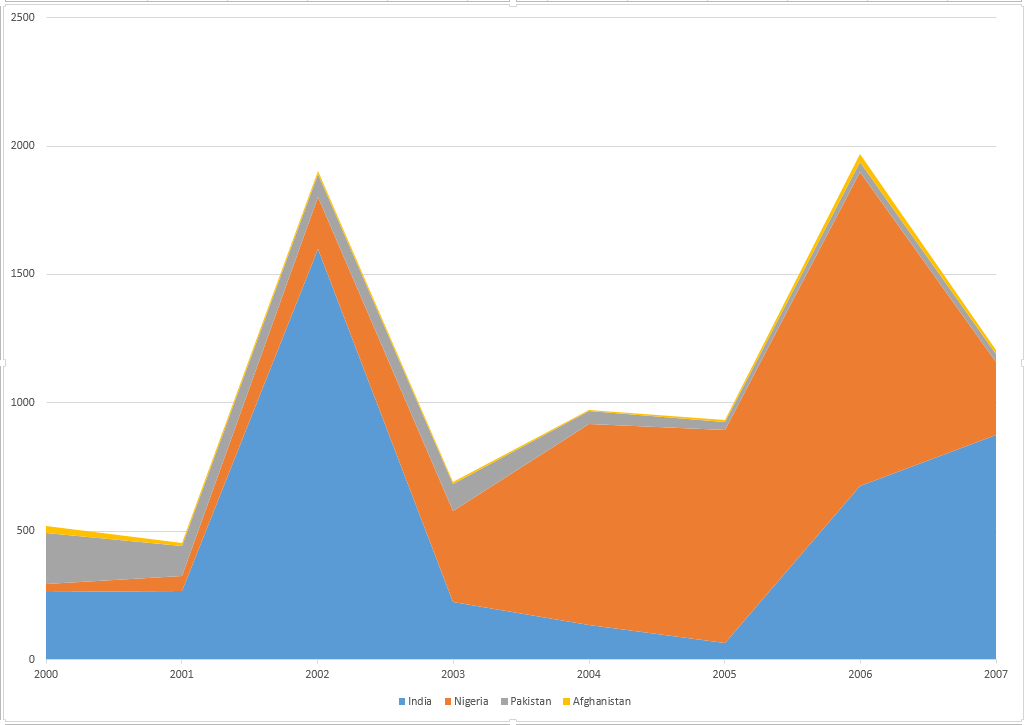 Confirmed cases of polio caused by wild virus in endemic countries (as of 2007) for the period 2000-2007. Cumulative.[1]